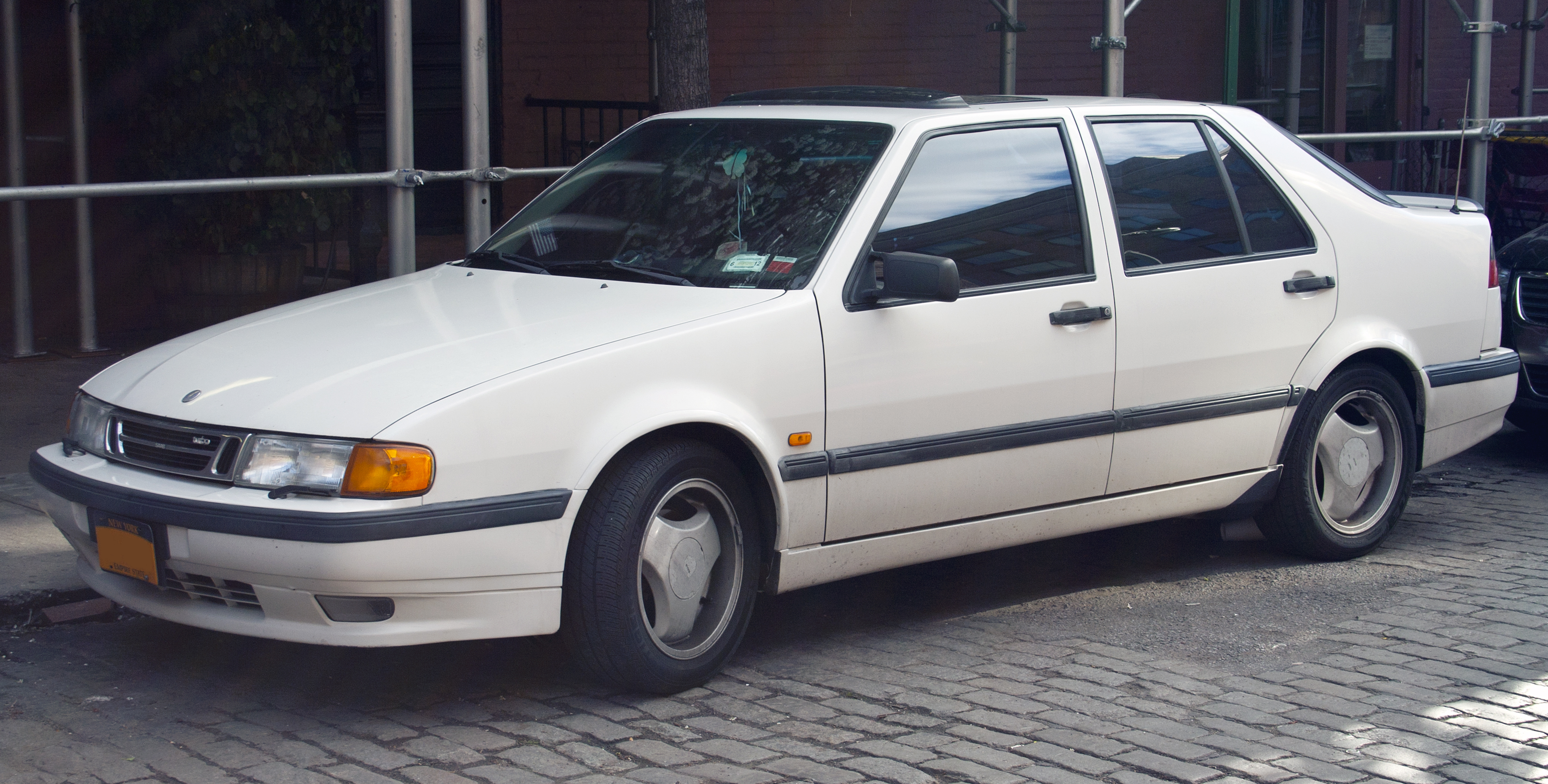 1994 Saab 9000 Aero (CS-style body)